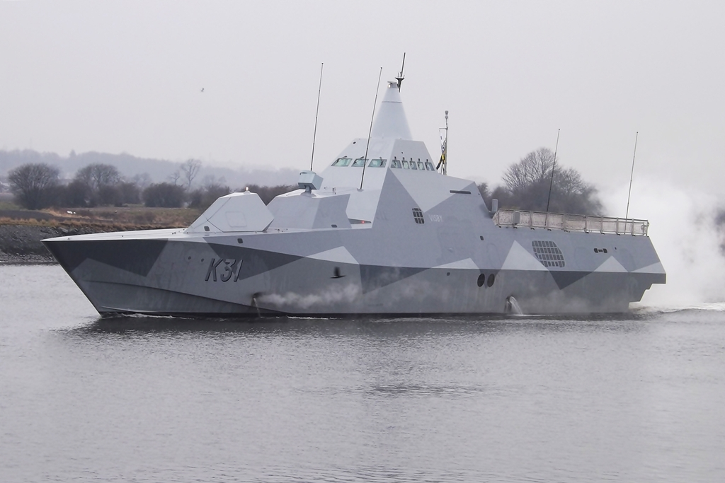 K31 HSwMS Visby, a Visby-class Corvette of the Swedish Navy